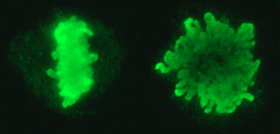 Metaphase. Chromosomes lined up on the metaphase plate. Two views rotated 90°. Produced using anti-dsDNA antibodies on HEp-20-10 cells with a FITC conjugate.